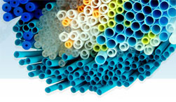 Custom Tube Extrusion